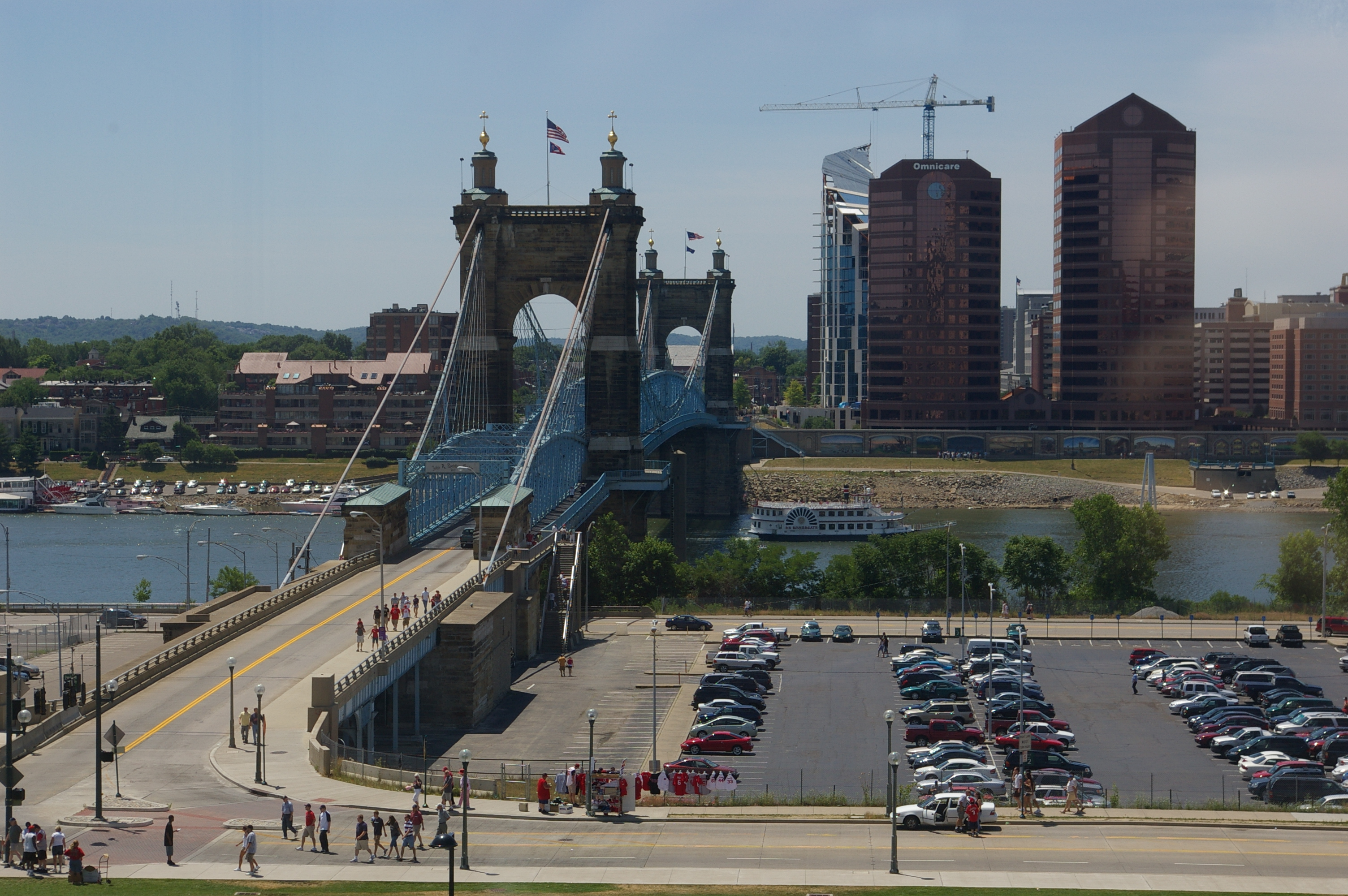 The John A. Roebling Suspension Bridge spans the Ohio River between Cincinnati and Covington.